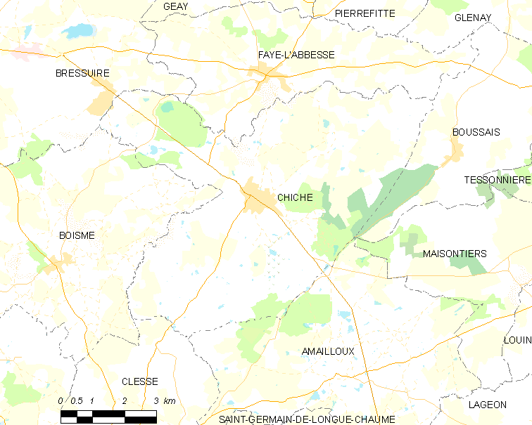 Map of French municipality Chiché